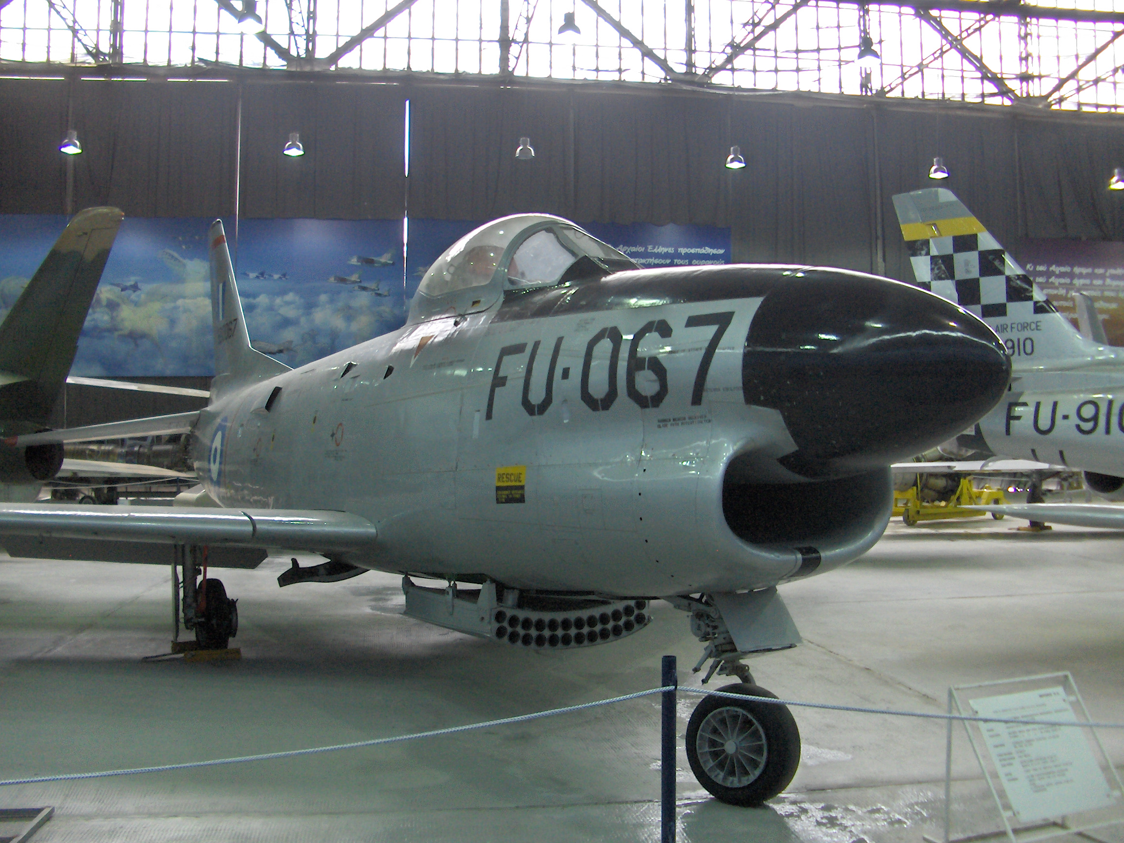 Exhibit at the Hellenic Air Force Museum at Dekelia (Tatoi), Athens, Greece. North American F-86D Dog Sabre